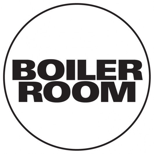 image for the boiler room music project